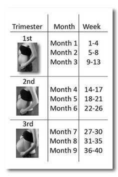 Picture showing the progression of pregnancy over 3 trimesters. This image shows what months and weeks fall under what trimester.